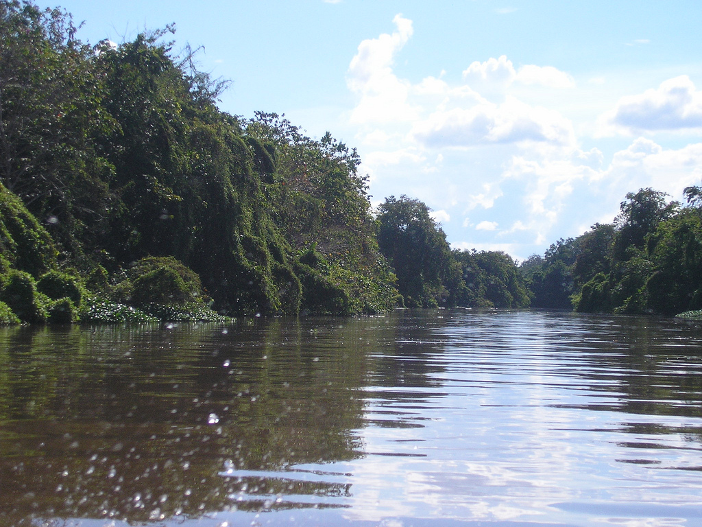 Scenery around Kapuas River